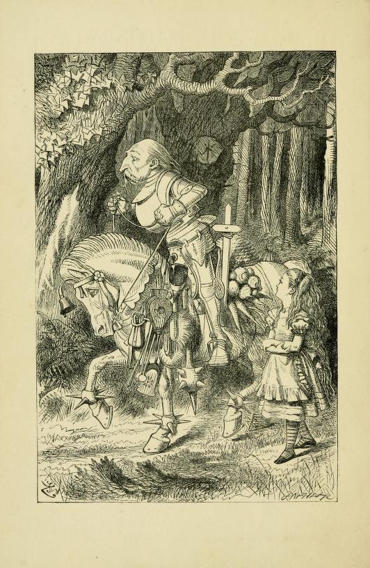 The White Knight frontispiece from Lewis Carroll's Through the Looking-Glass